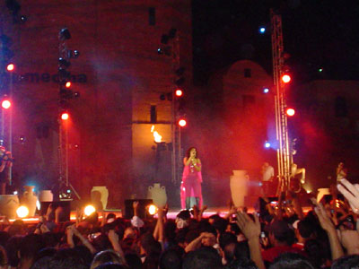 Amel Bent at the FT1 concert for Tolerance in Yasmine Hammamet / Tunisia.